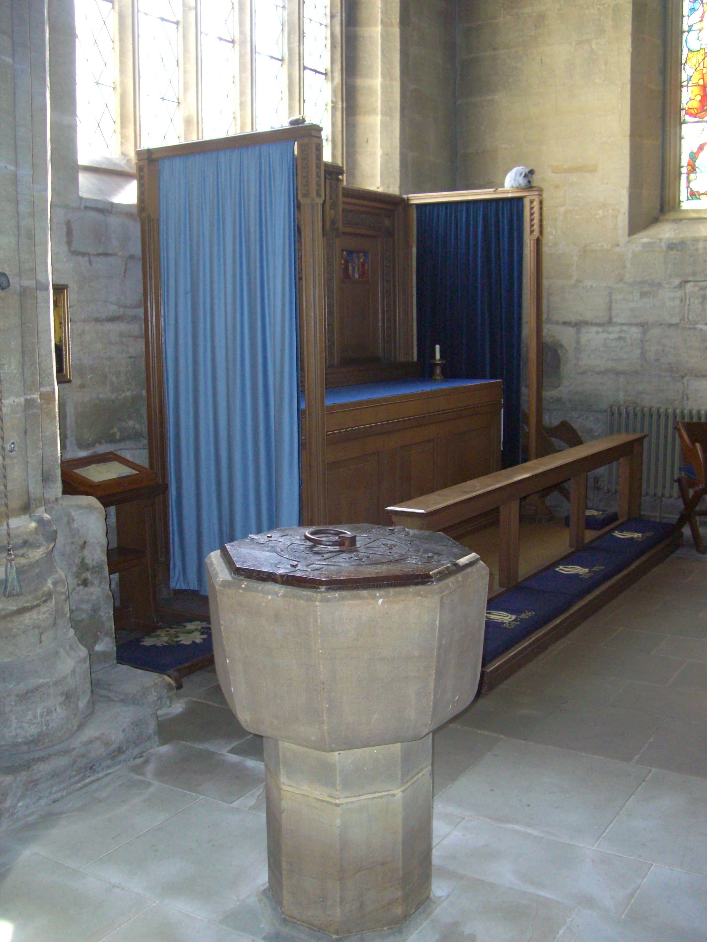 The font and Lady chapel inside St Lawrence's church, Warkworth, England.